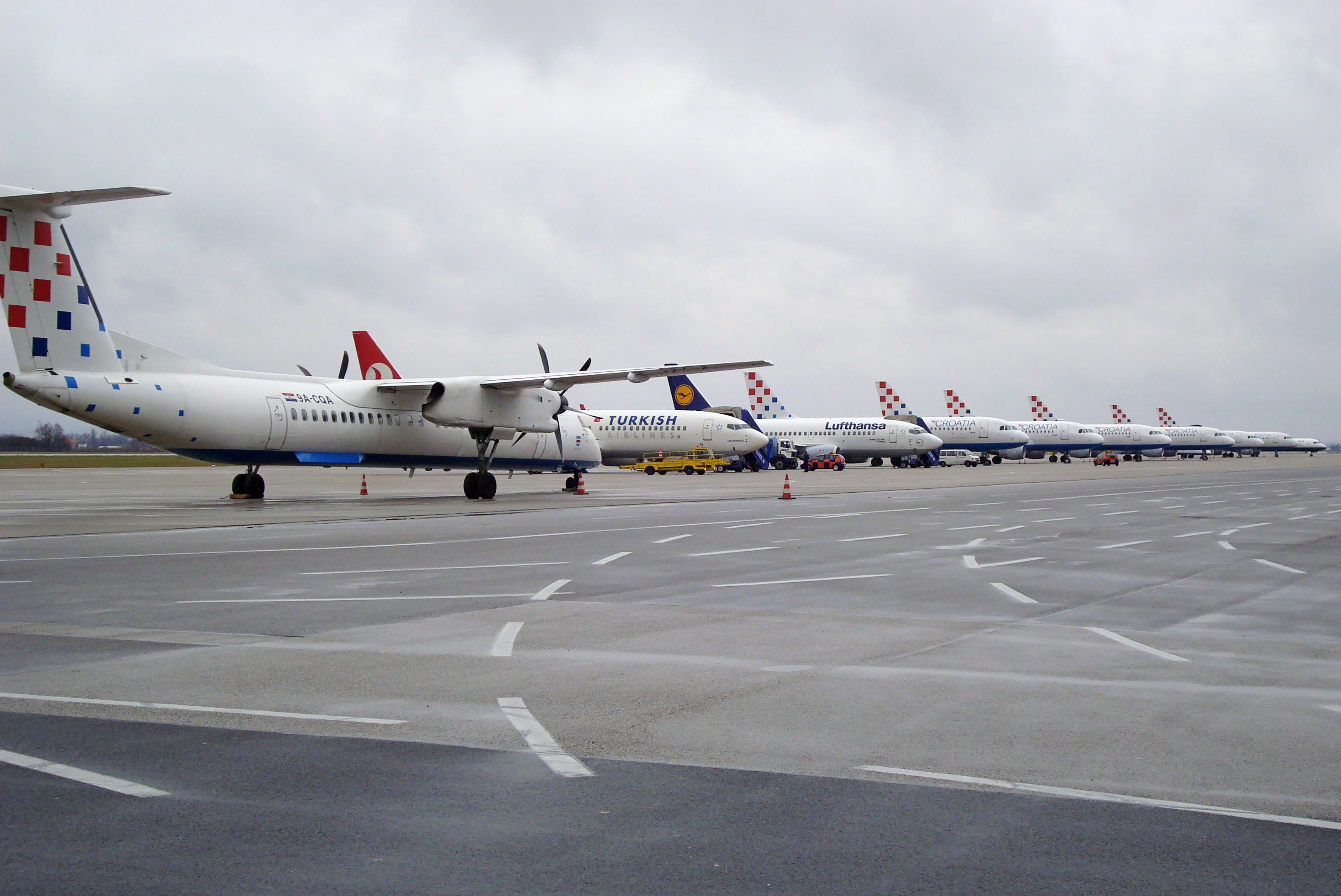 All fleet parked at the Zagreb Airport for Christmas day.